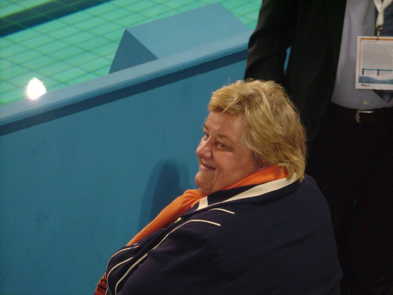 Erica Terpstra former Dutch Swimmer during the European LC Championships 2008 in Eindhoven.